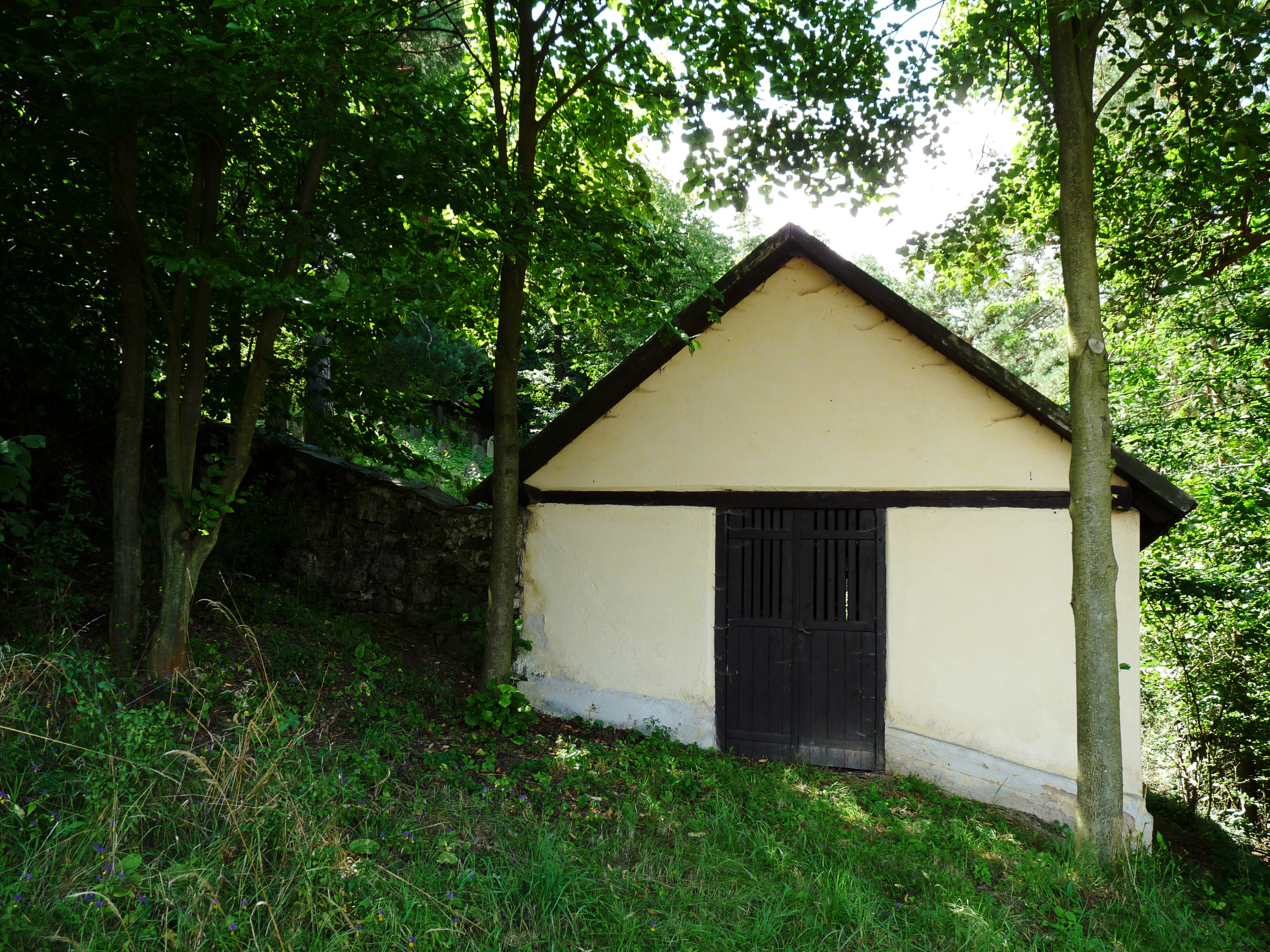 Morgue at the Jewish cemetery in Bohostice, Příbram District, Central Bohemian Region, Czech Republic.